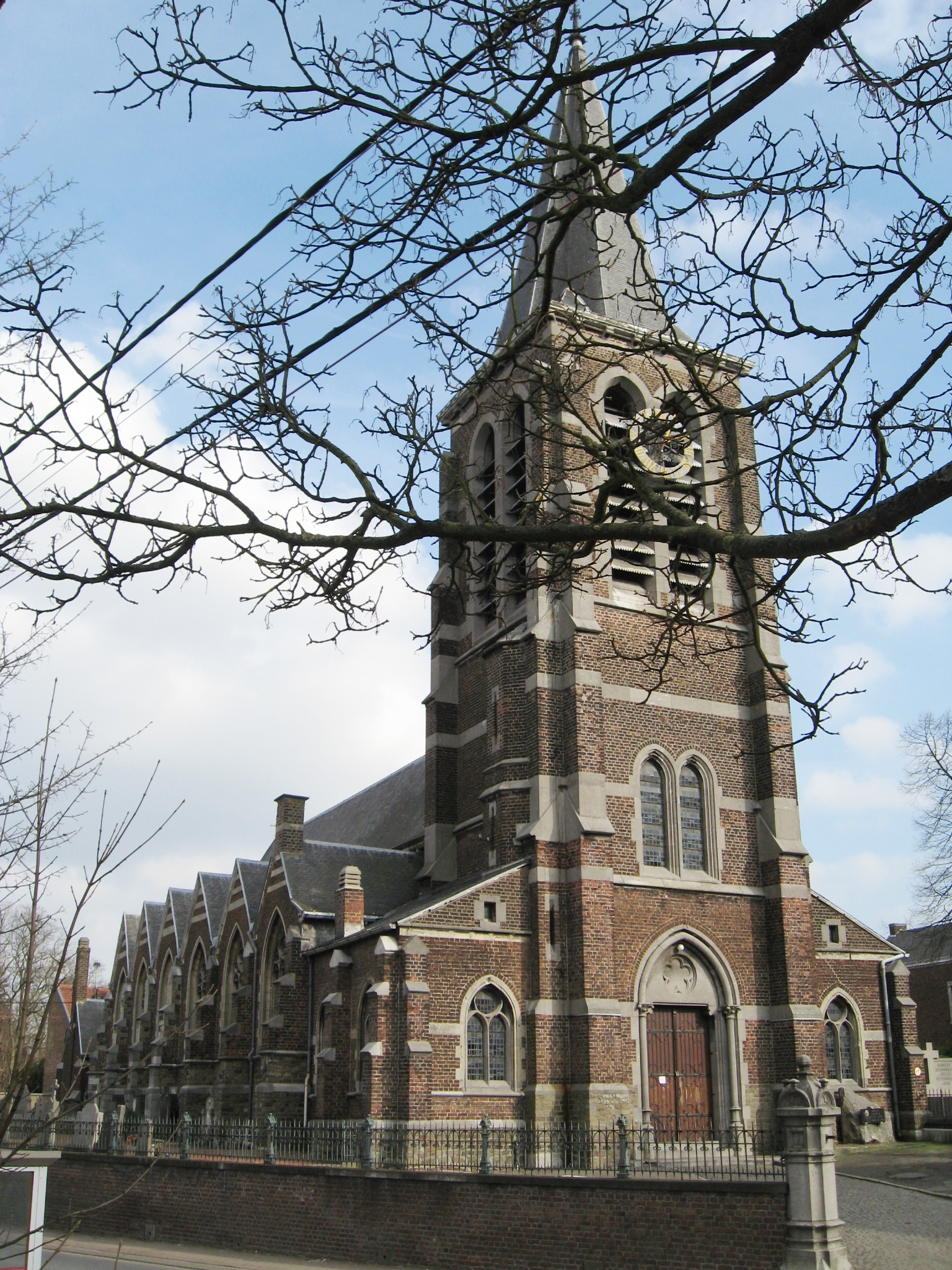 Church of Saint Remigius in Liers, Herstal, Liège, Belgium